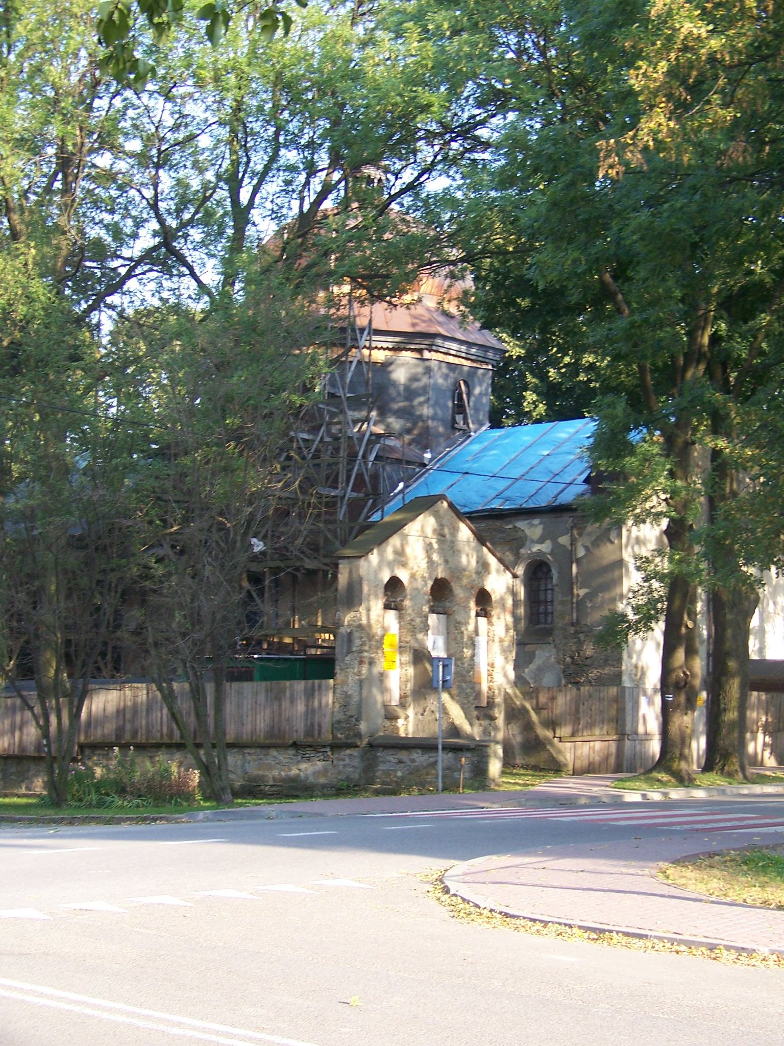 Greek Catholic church in Baligród, Poland